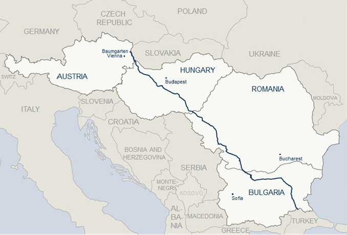 Detailed route of Nabucco West - Turkish-Bulgarian border to Baumgarten in Austria.